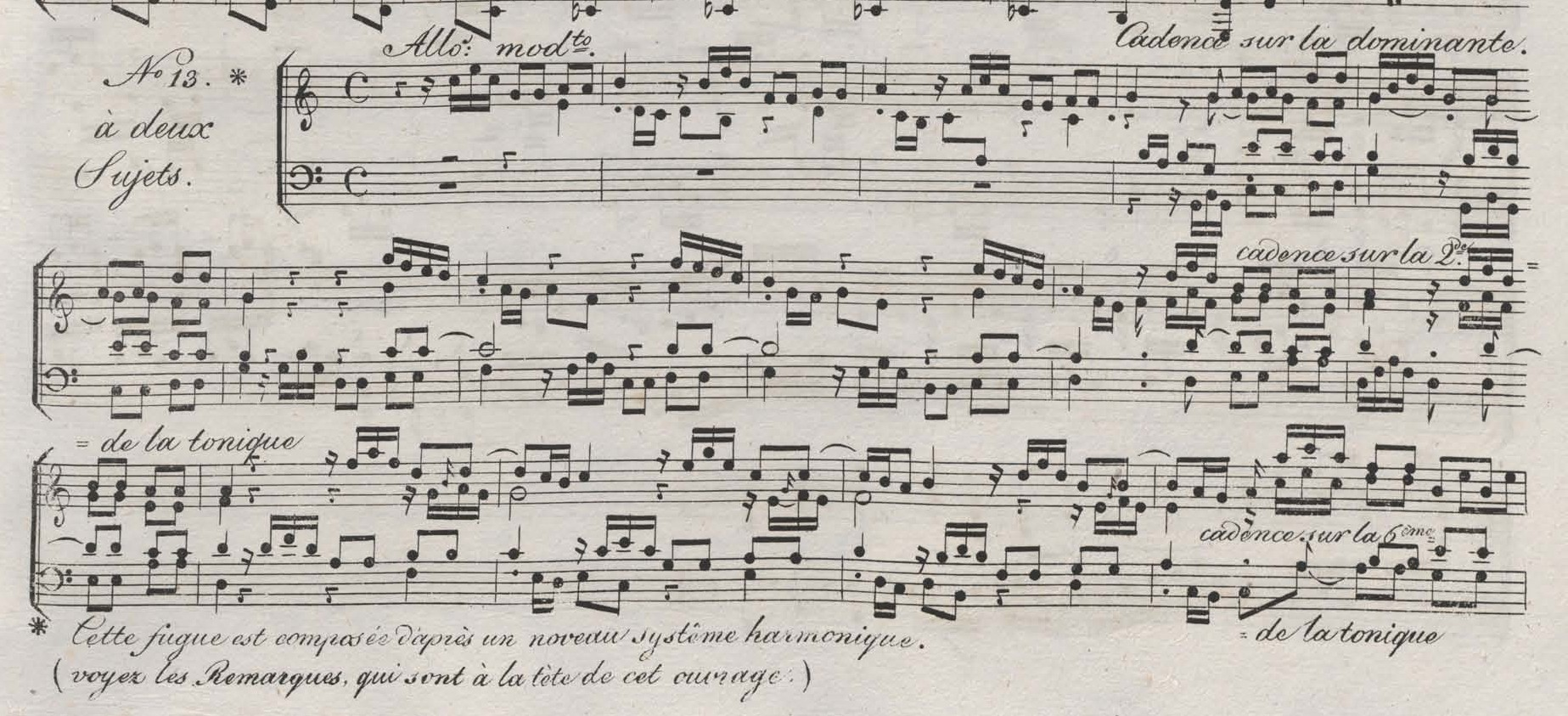 Opening bars of Anton Reicha's Fugue "in a new harmonic system", No. 13 from "36 Fugues" (1803). Facsimile of the second edition (1805).